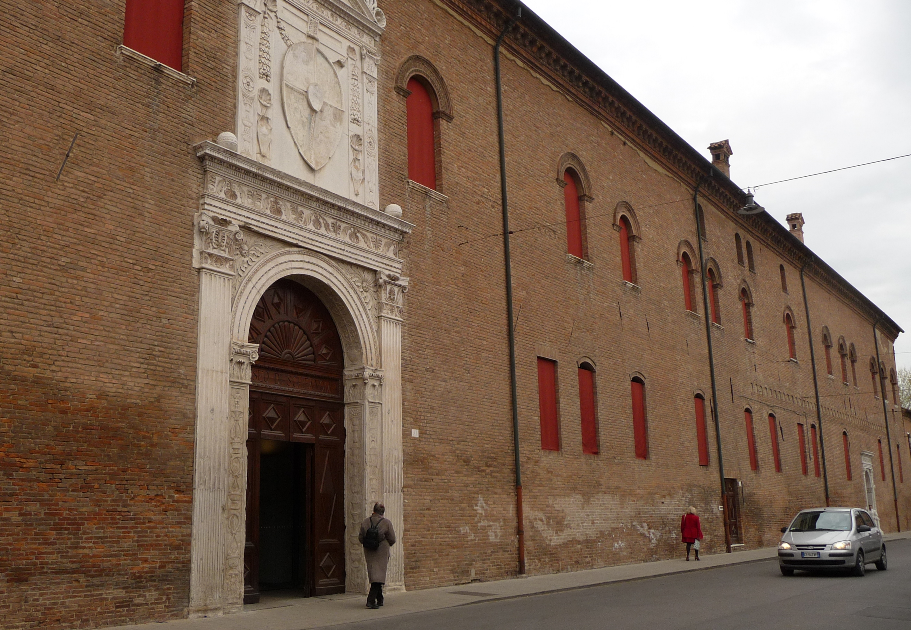 Palazzo Schifanoia in Ferrara, Italy: 1470 portal.